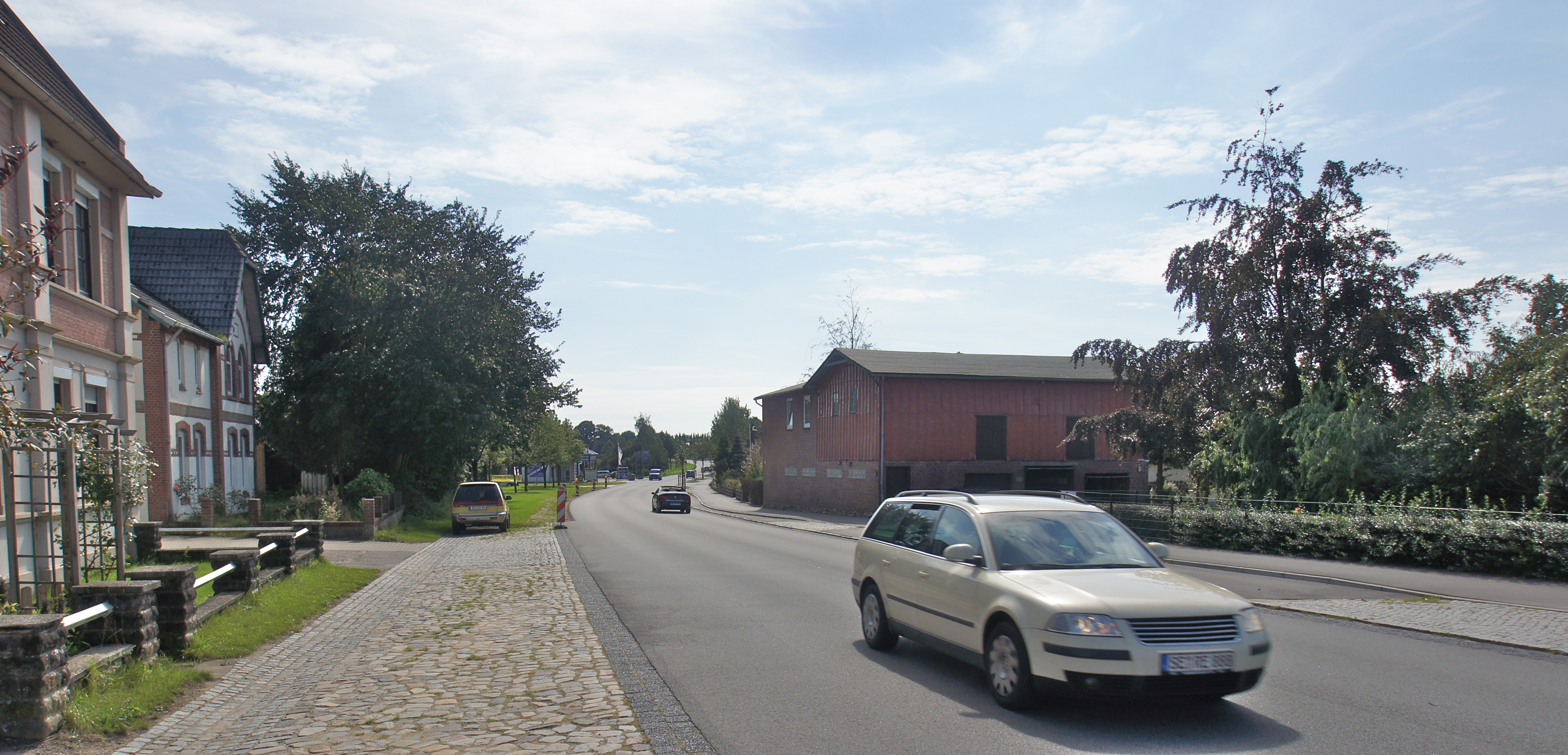 Wiemersdorf, Germany: The Kieler Road